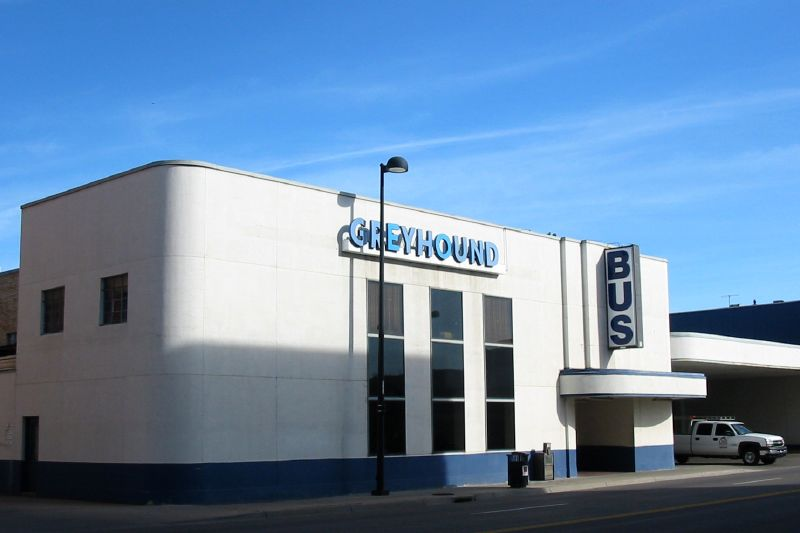 Greyhound Bus Terminal in Wichita, Kansas, United States.